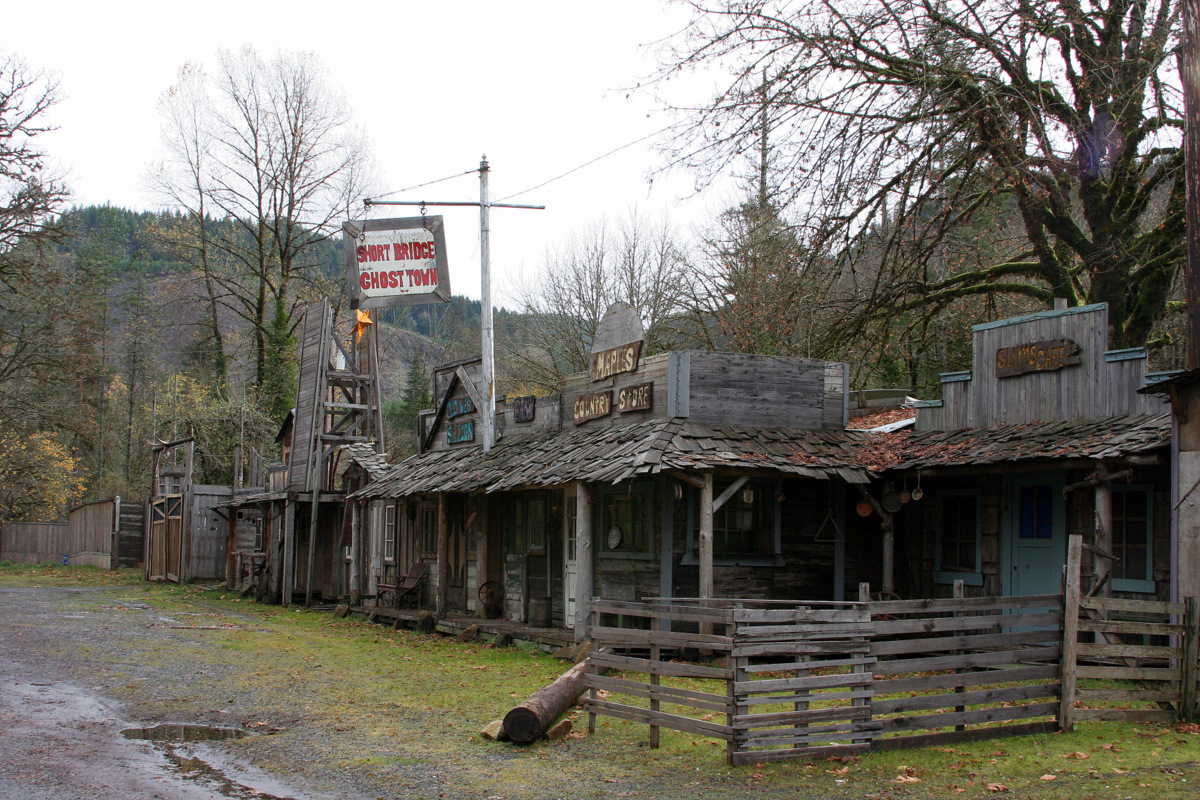 Cascadia, a small settlement in Linn County, Oregon, United States